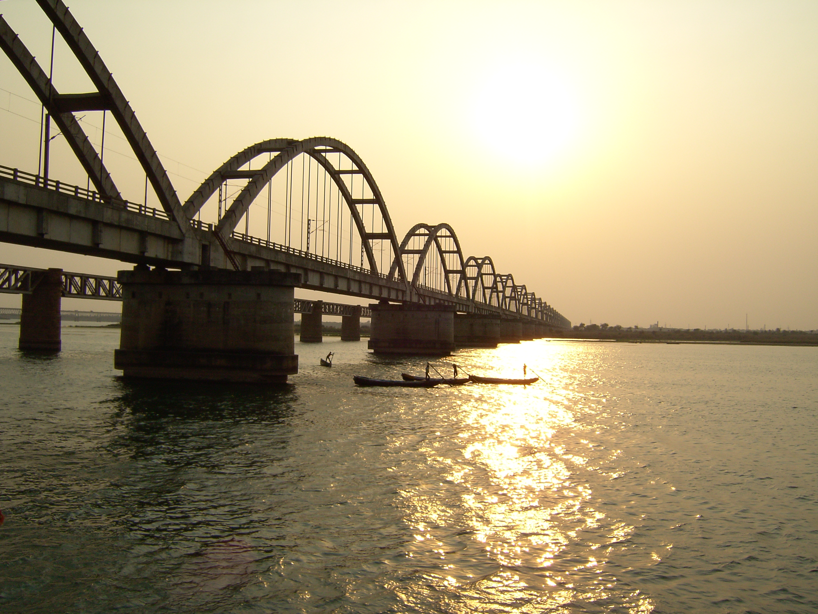 Godavari Arch Bridge. Image taken using my Acer camera. The picture shows the 3rd Bridge crossing Godavari River in Rajahmundry.